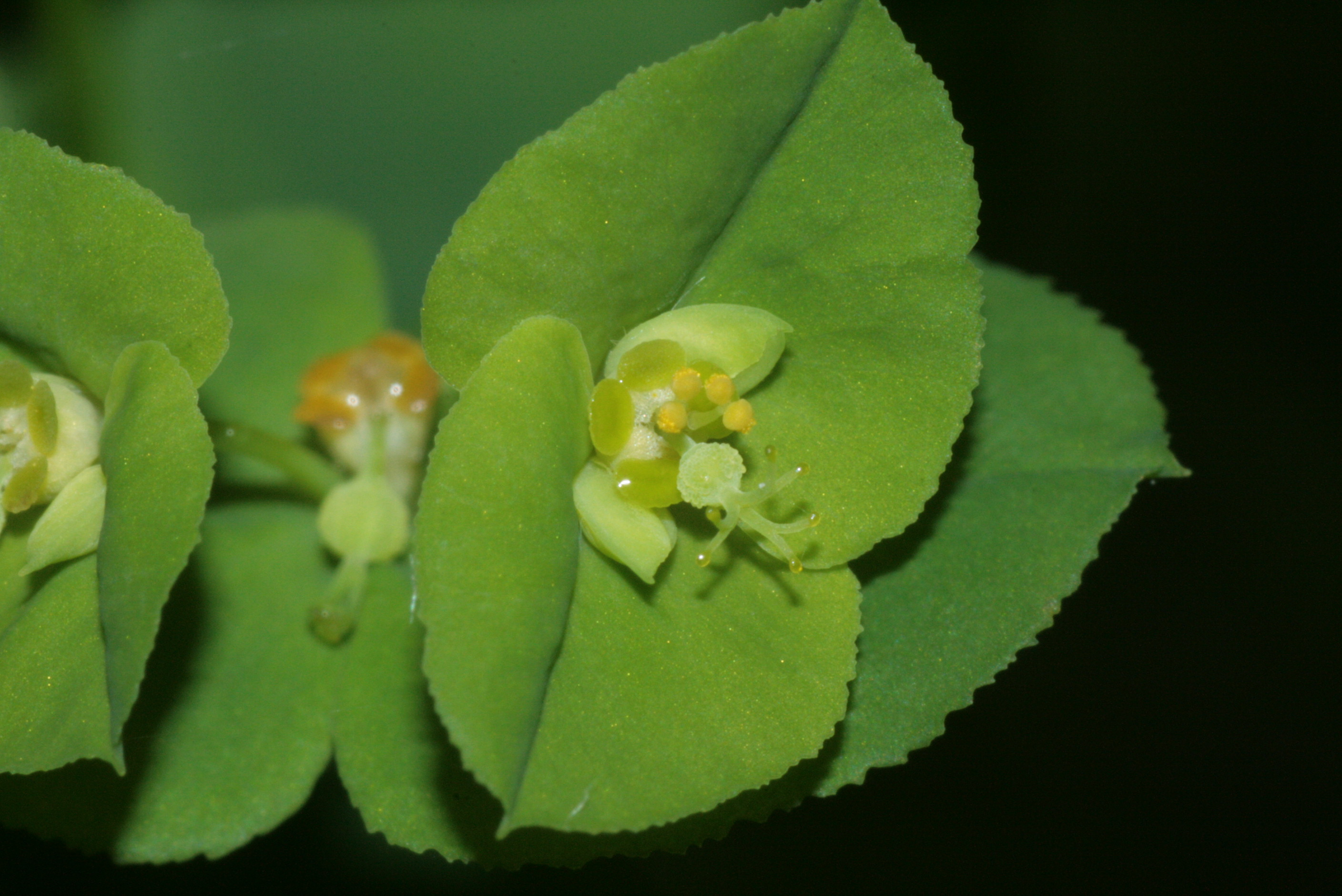 Euphorbia stricta